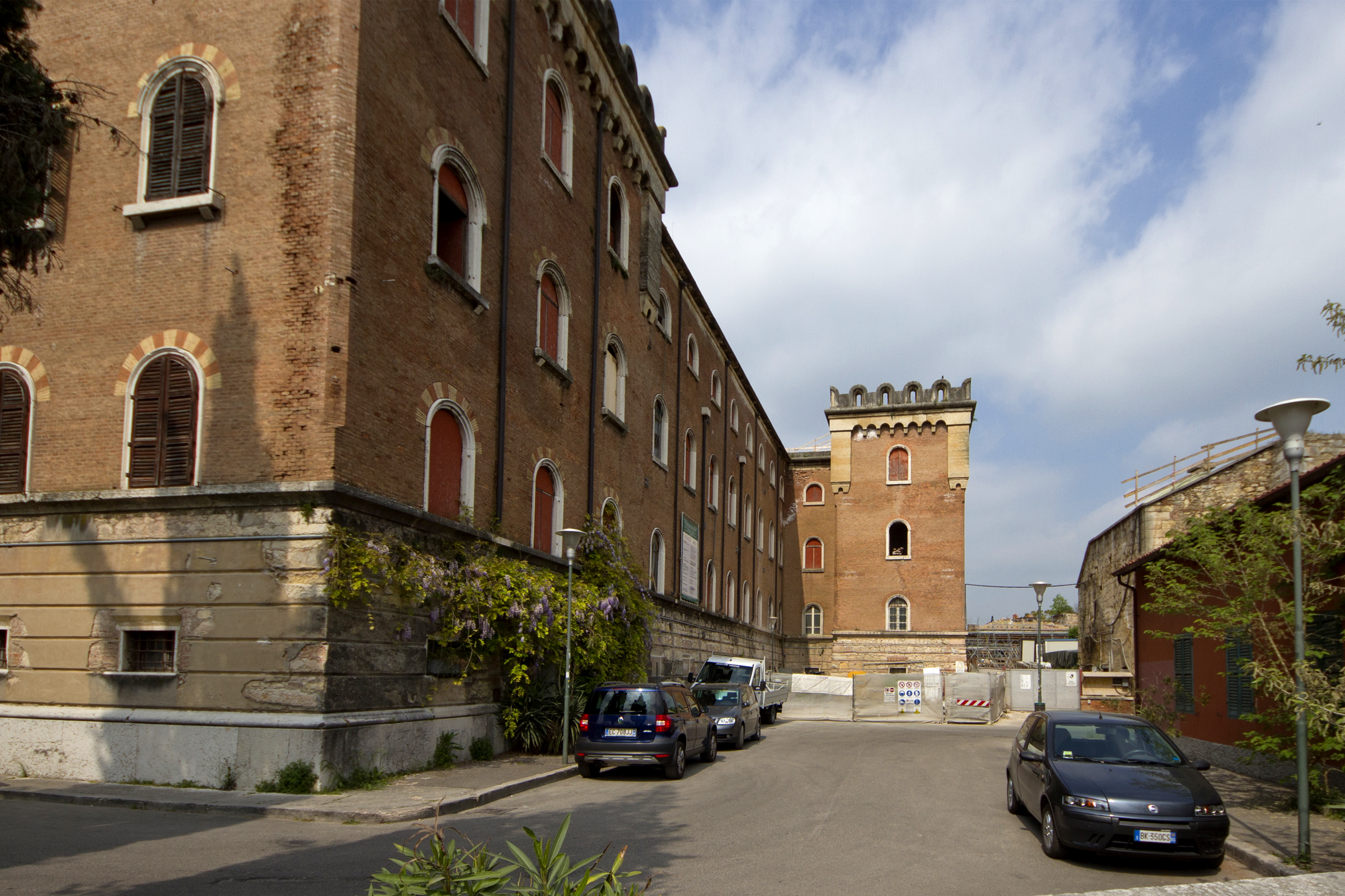 Verona, Province of Verona, Italy